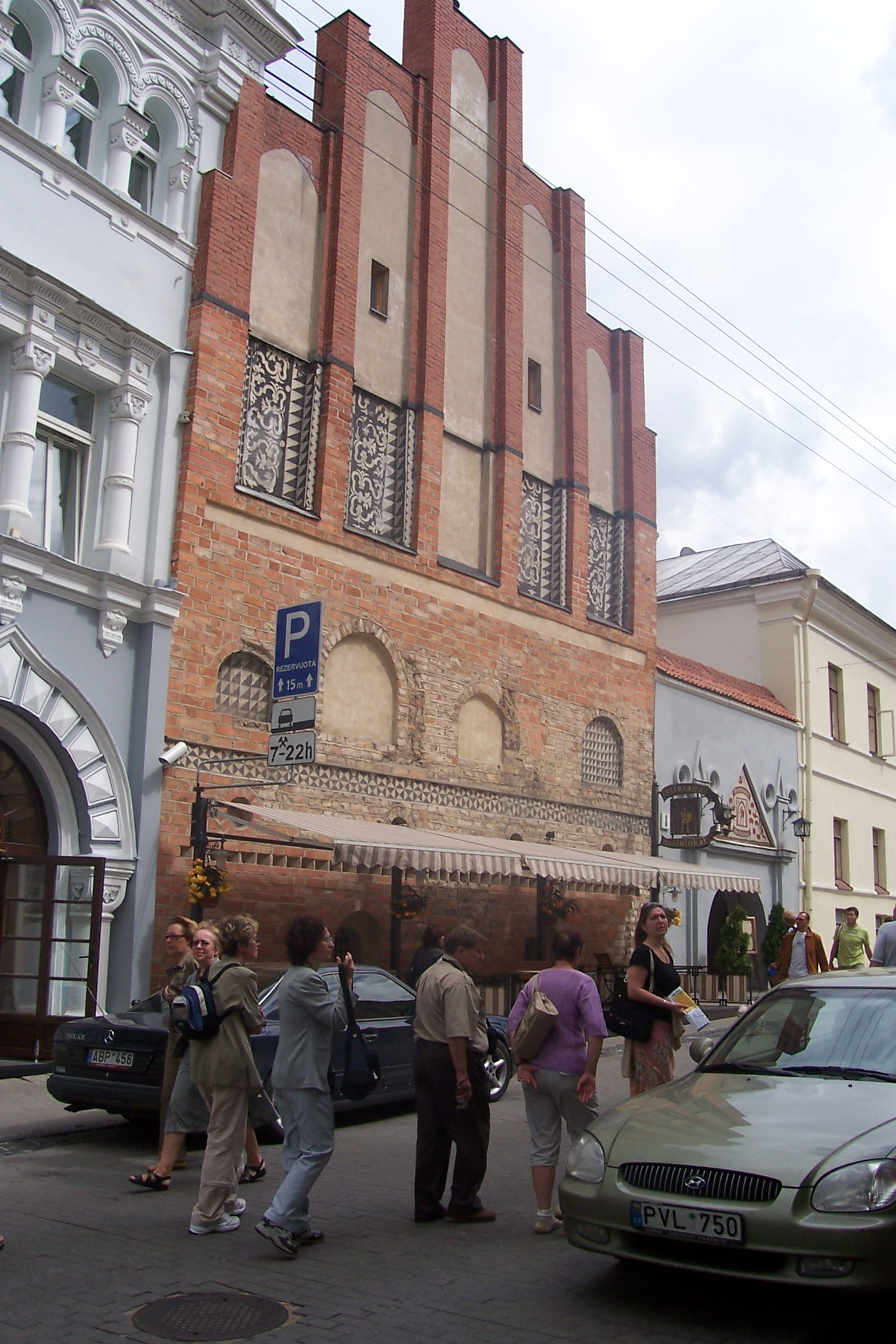 Vilnius, Lithuania. Aušros Vartų street No. 8.